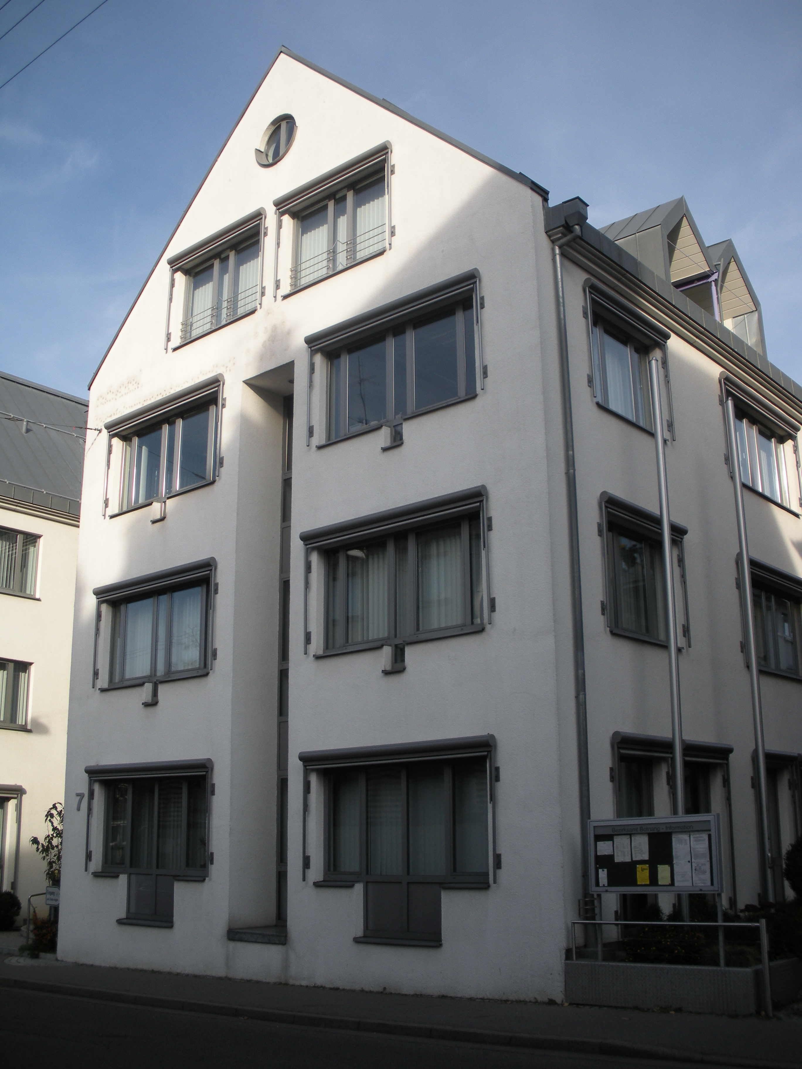 Town Hall in Stuttgart-Botnang